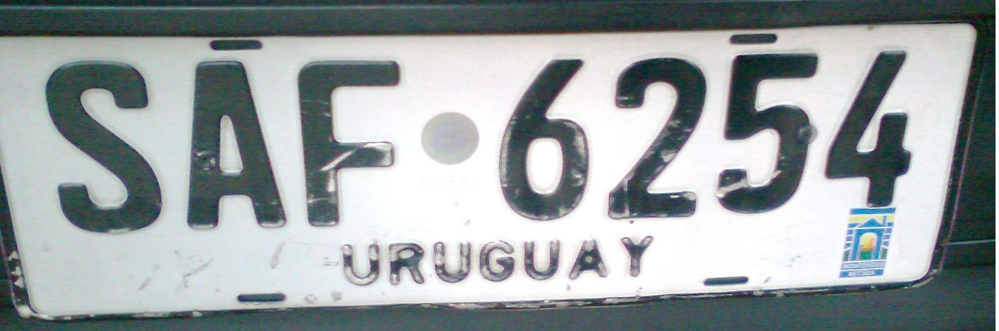 Vehicle registration plate of Uruguay